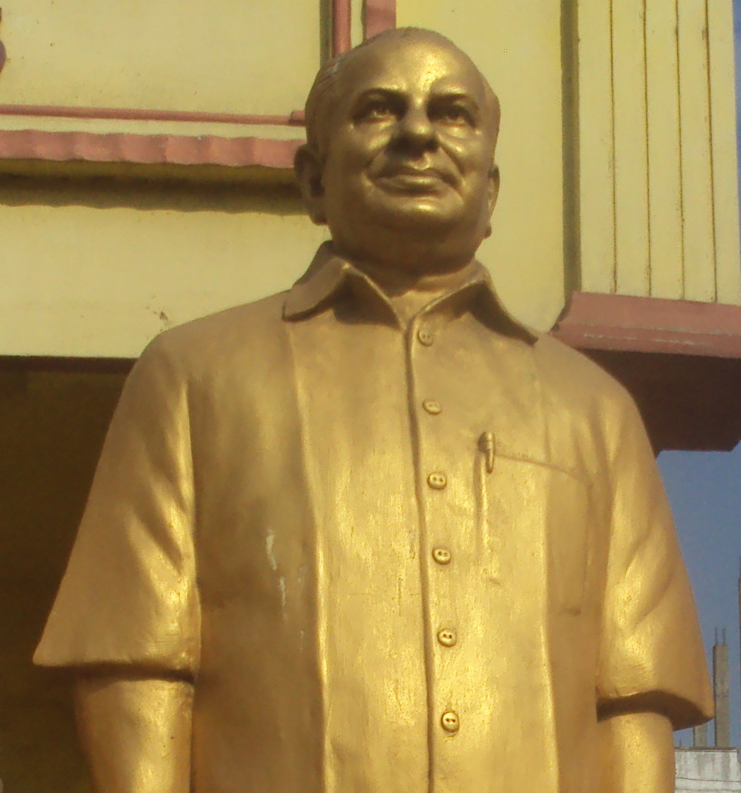 andhra pradesh ex-minister dandu sivarama raju statue, at attili, ap villege